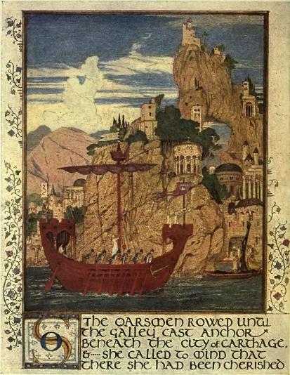 Illustration for Aucassin et Nicolette (1910) by Maxwell Armfield / Bibliography : Eugene Mason (Editor & translator) (ill. Maxwell Armfield), Aucassin and Nicolette, London ; New York, J.M. Dent & Sons, Ltd. ; E.P. Dutton & Co., coll. « Some tales of old romance series », 1910, VIII-72 p., 6 p. ill. in color ; 19 cm (OCLC 12587228)